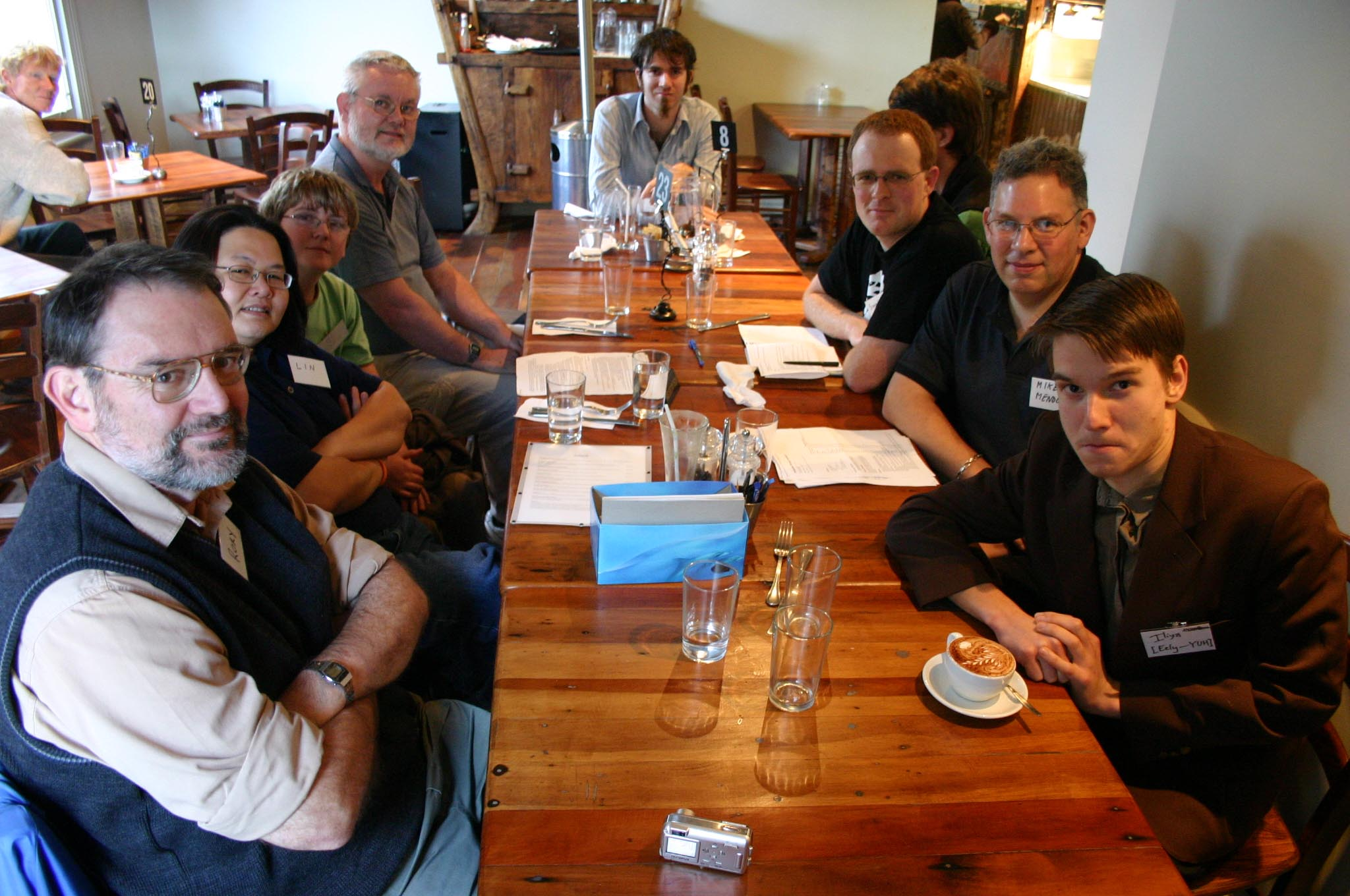 Wikipedia:Meetup/Auckland 3, wiki meetup at a café